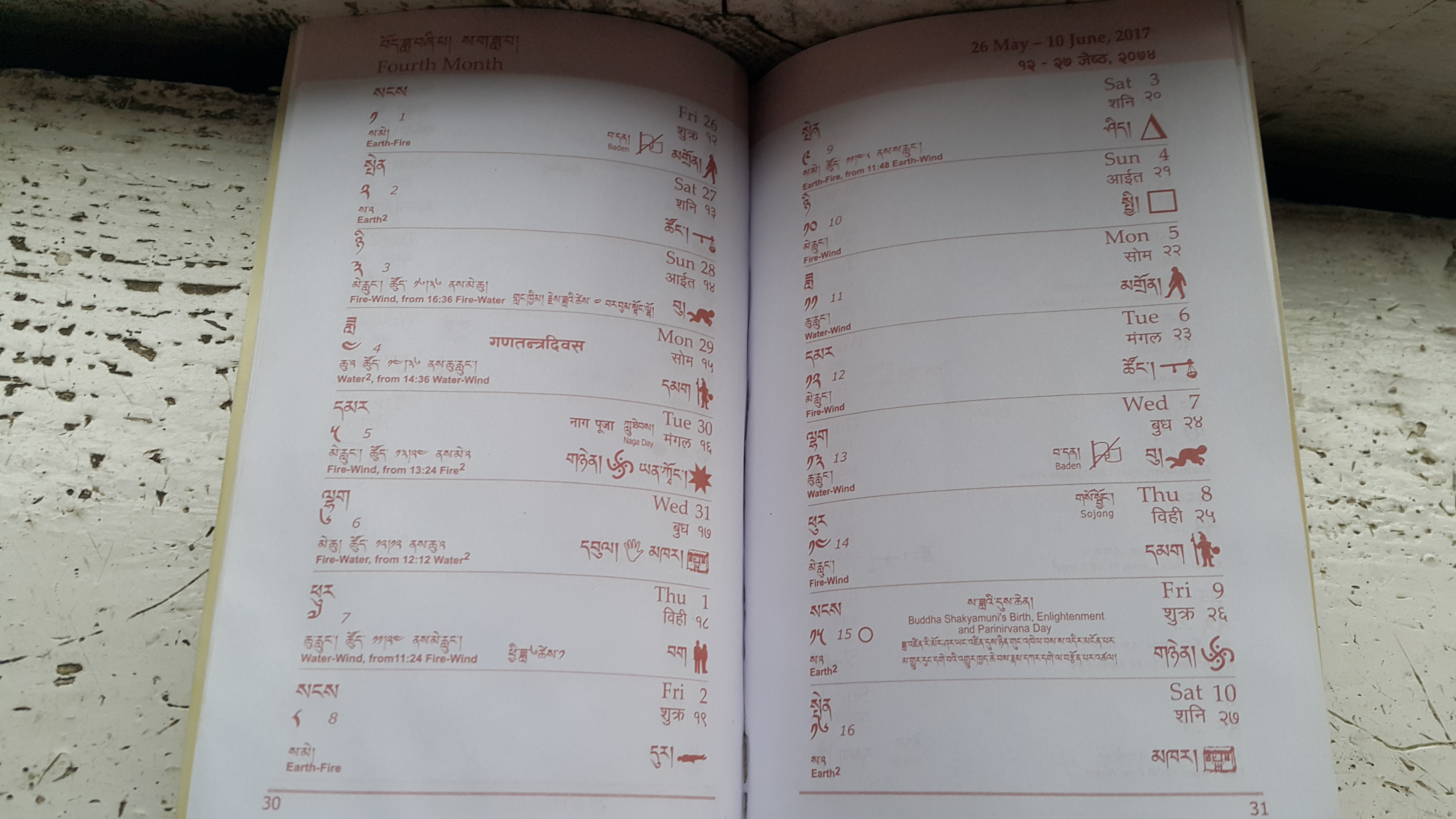 Tibetan Calendar for the period May 26 - June 10, 2017 of Gregorian Calendar